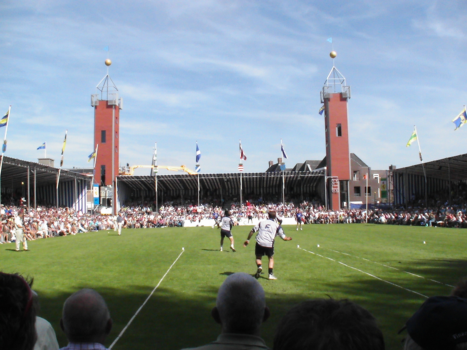 PC 2007, final match